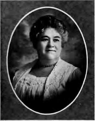 Mrs. Charles Hulbert Toll, 1922 President of Ebell of Los Angeles, Who's who among the women of California